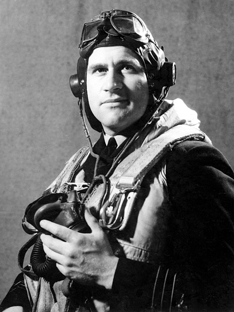 London, England. c. 1944-07. Portrait of 402933 Wing Commander W. L. Brill DSO DFC of Grong Grong, NSW, Commanding Officer of No. 467 (Lancaster) Squadron RAAF at RAAF Overseas Headquarters.